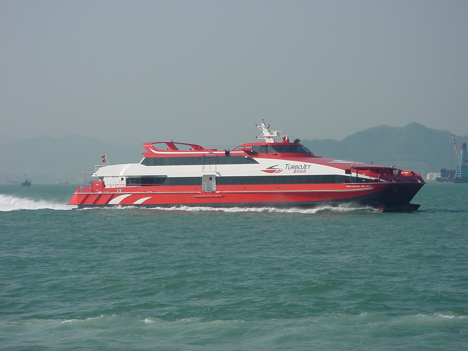 TurboJET's Universal MK 2011 Austal 48m catamaran